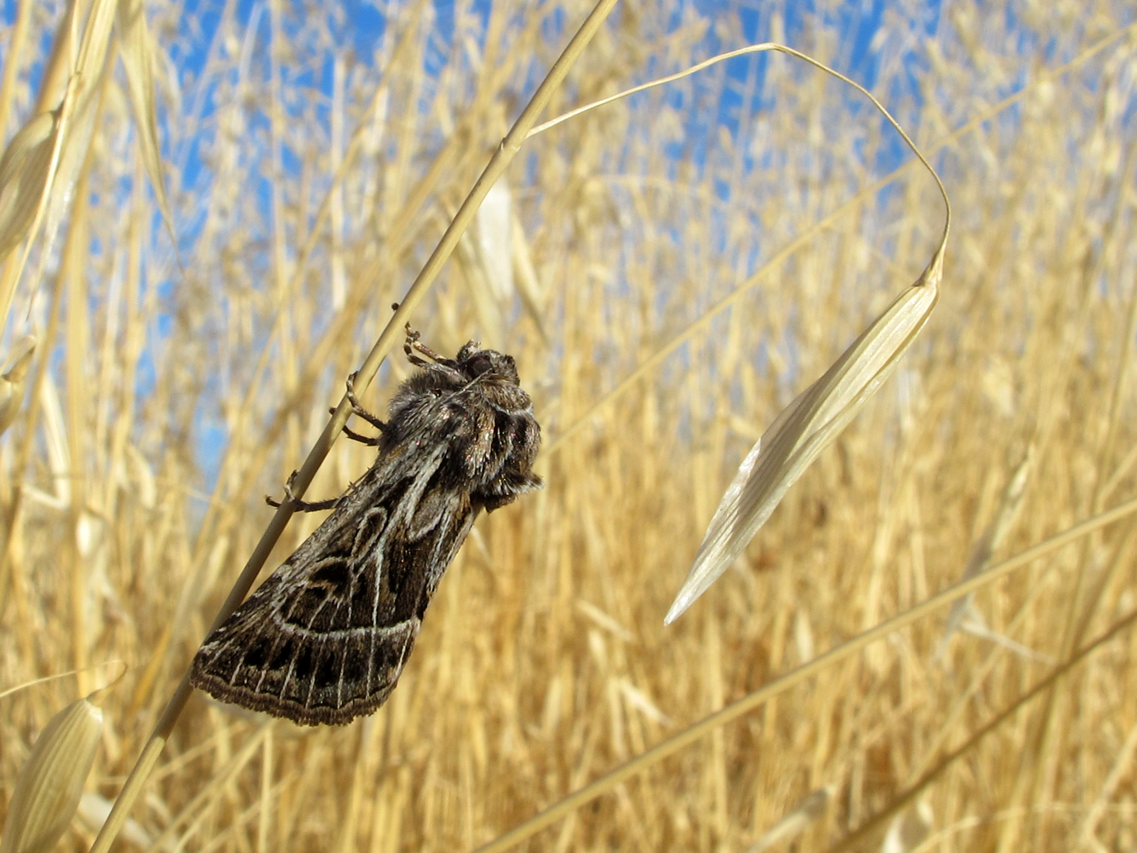 Noctuidae in a farm field.